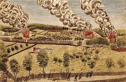 Cropped version of the image at right. Plate IV. A view of the south part of Lexington, from "The Doolittle engravings of the battles of Lexington and Concord in 1775."